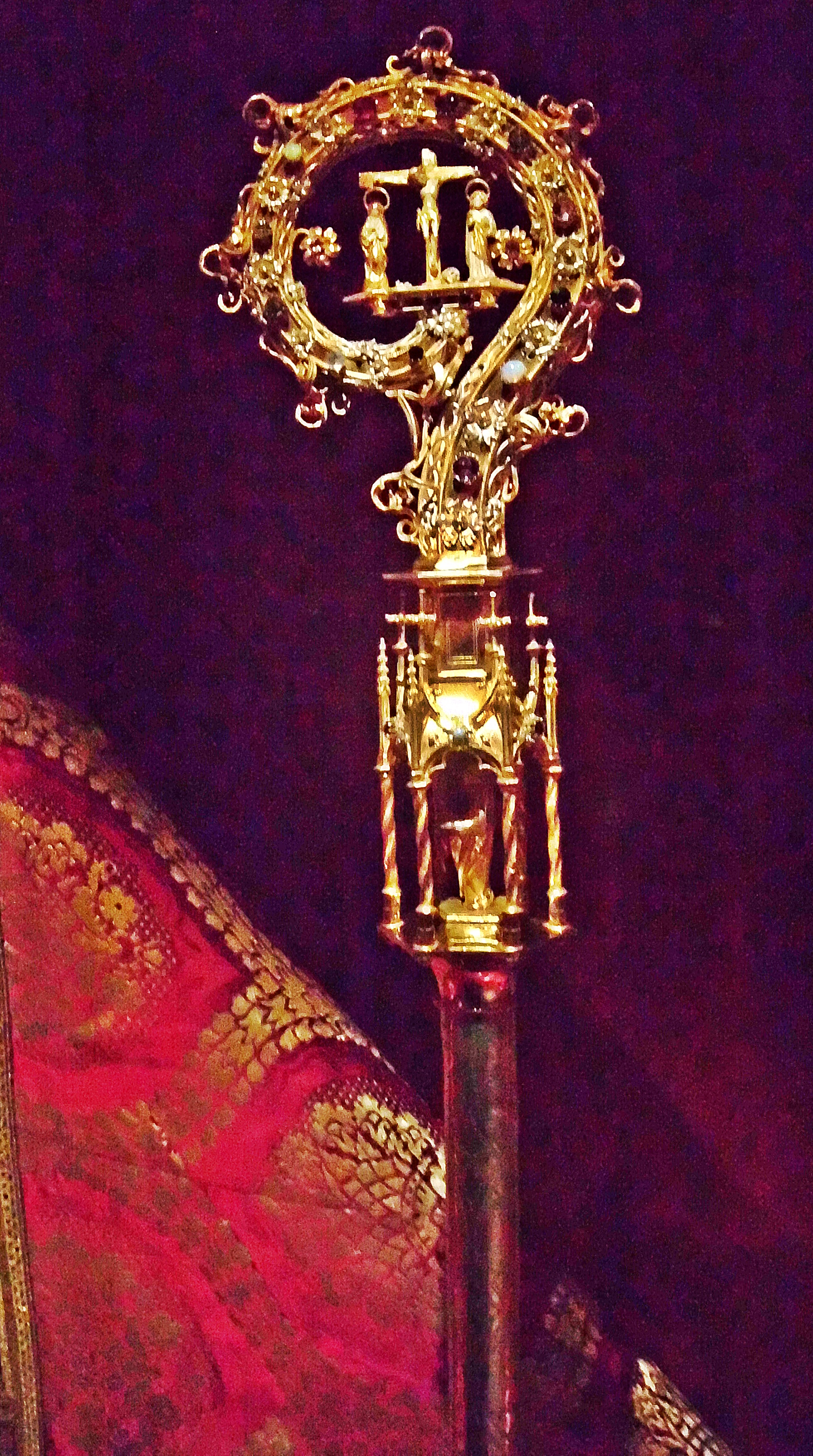 Stab des Wormser Bischofs Johann von Dalberg, im Speyerer Domschatz (Historisches Museum der Pfalz), Speyer